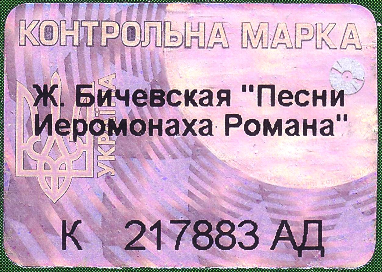 Excise golo stamp #1 for audio of Ukraine 2000